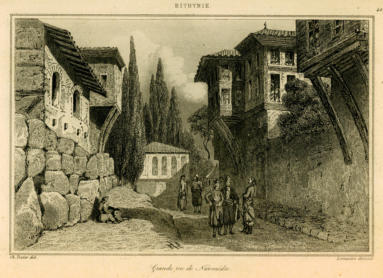 Félix Marie Charles Texier. Asie Mineure. Description géographique, historique et archéologique des provinces et des villes de la Chersonnèse d’Asie ("Asia Minor. Geographic, historical, and archaeological description of the provinces and cities of the Chersonnese of Asia), Paris, Firmin-Didot, MDCCCLXXXII (1882).